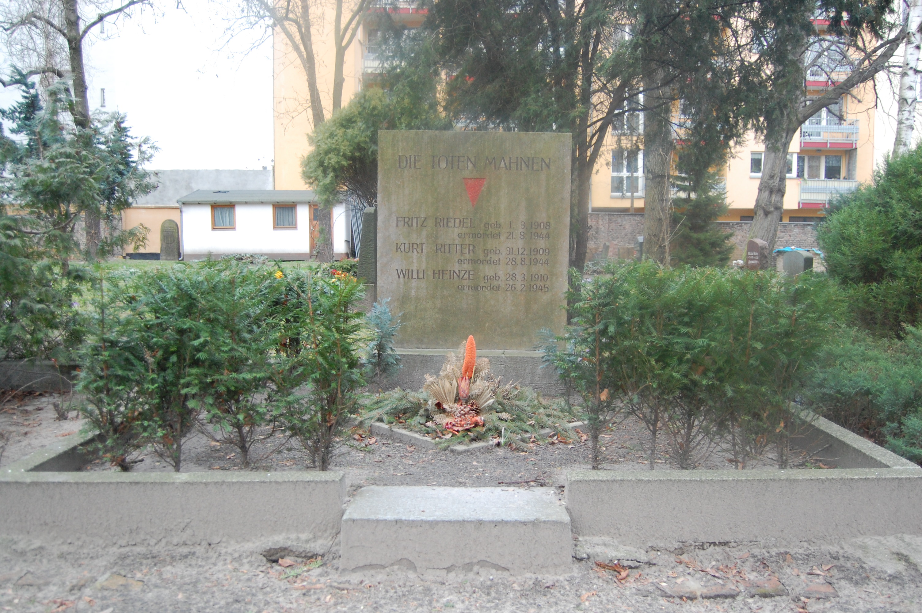 gravesite on Georgen-Parochial-Friedhof IV in Berlin-Friedrichshain